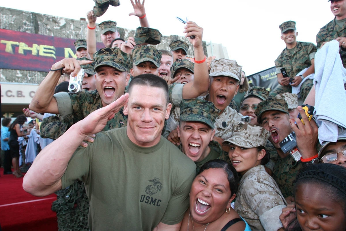 WWE Champion John Cena poses with Marines at Camp Pendleton at the premiere of his new movie "The Marine".